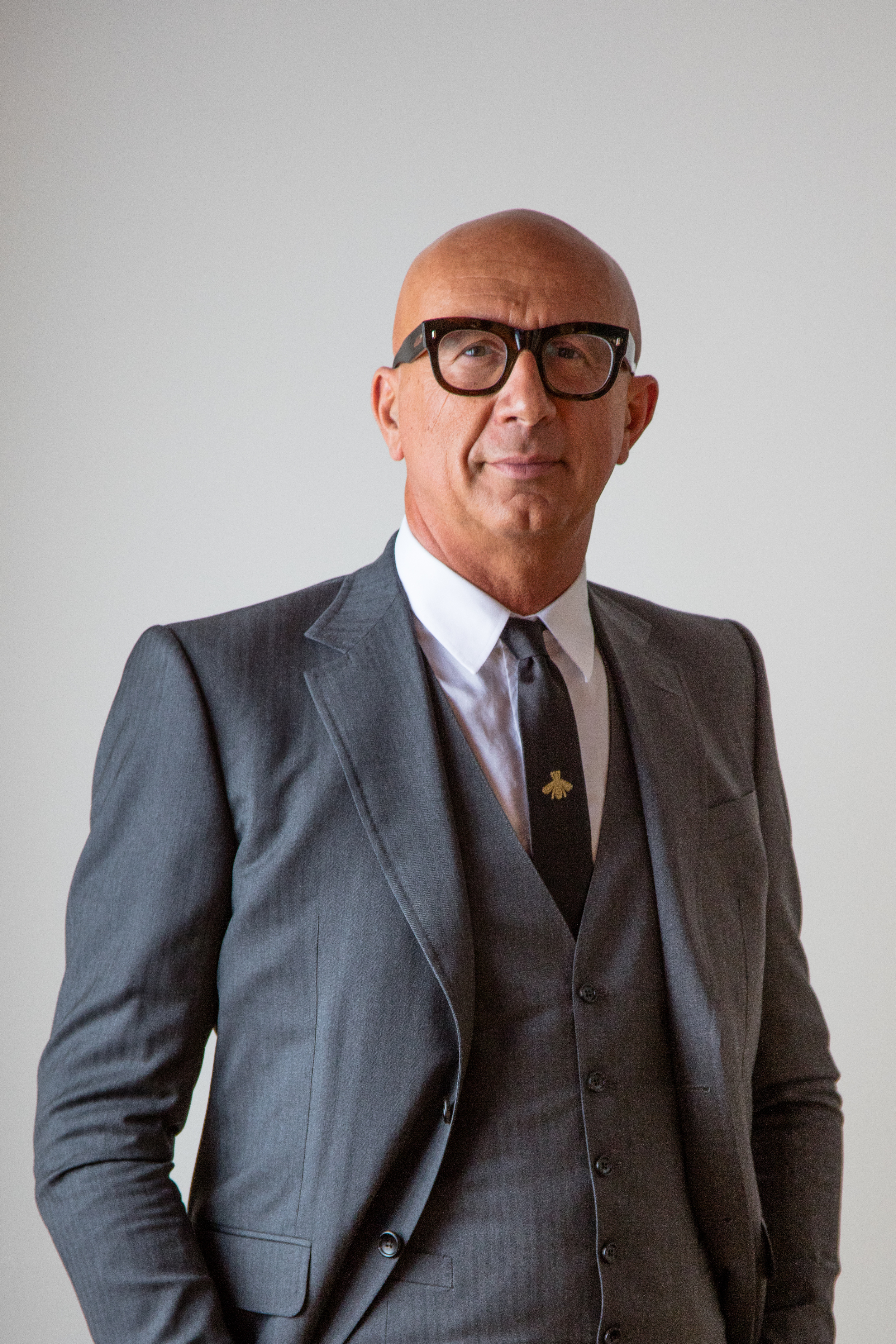 Portrait of Marco Bizzarri - 4 May 2018